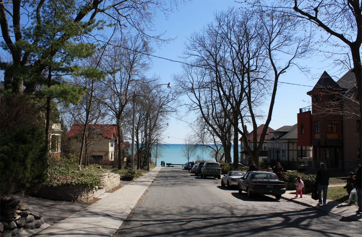 The Beaches, Toronto